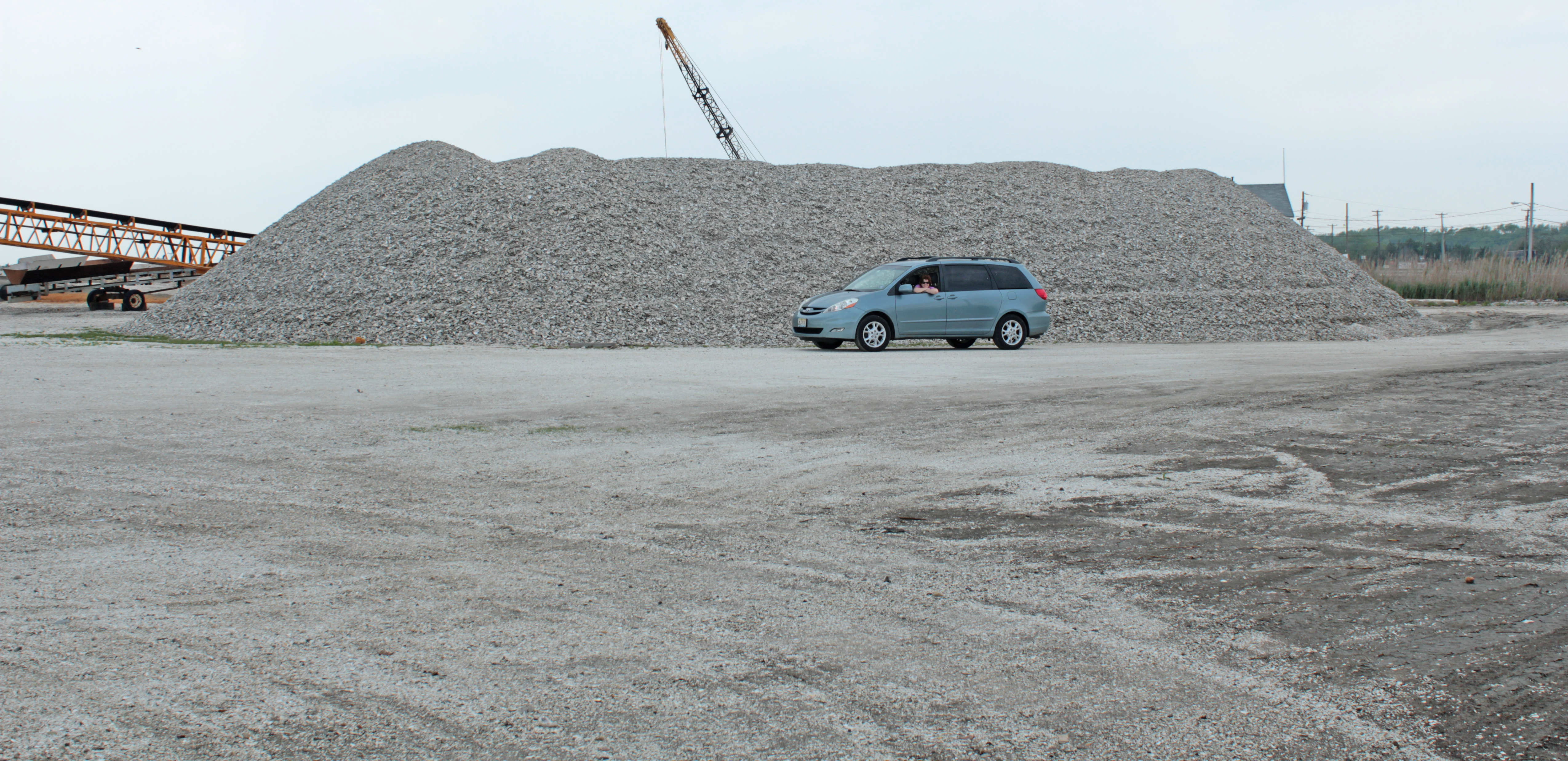 A large pile of oyster shells in Shell Pile, New Jersey, a small town just outside of Port Norris.